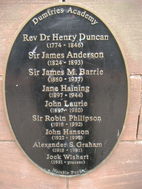 Plaque of Notable Students at Dumfries Academy